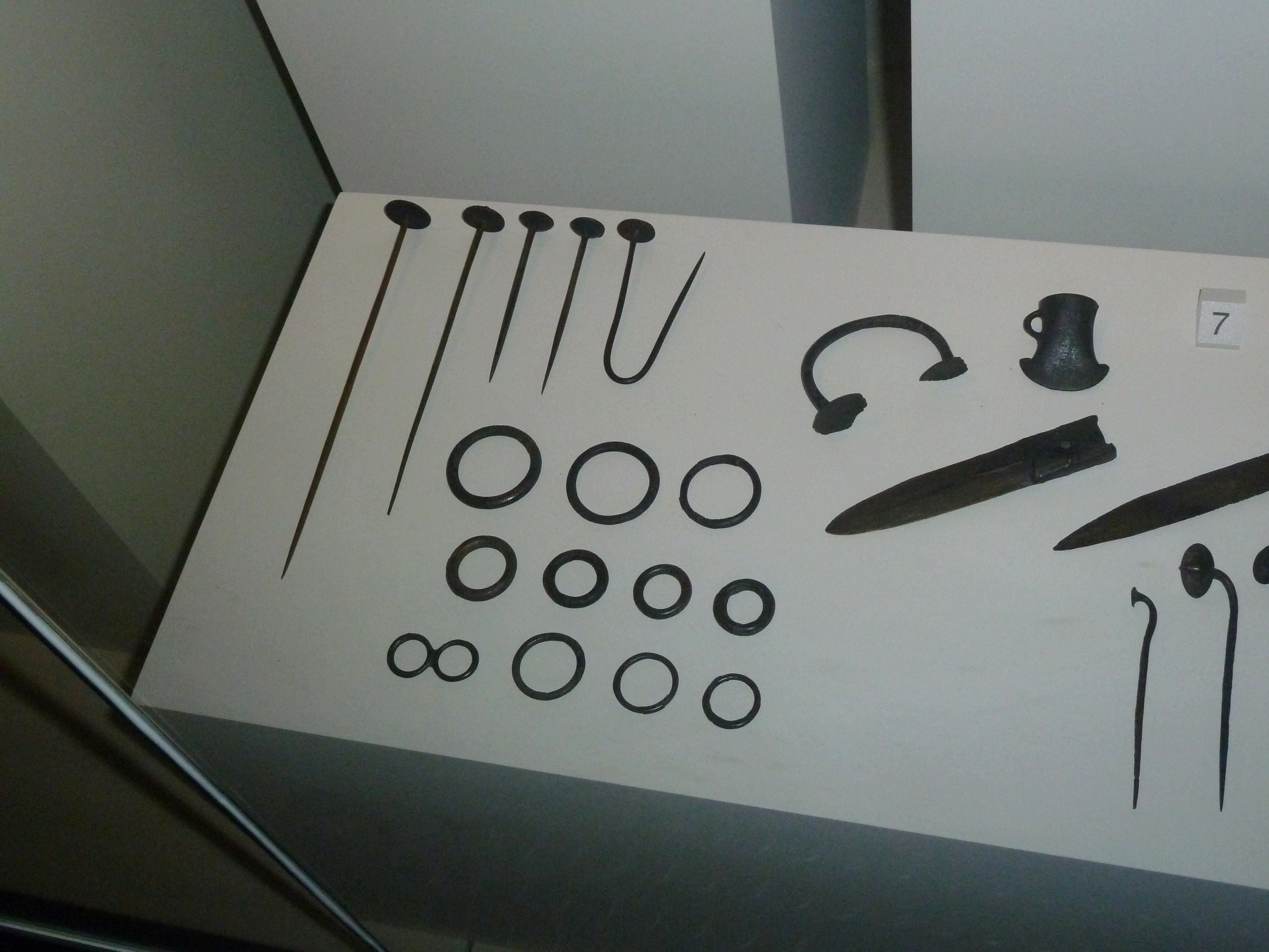 Ulster Museum Bronze Age Hoard containing bronze tools, weapons and ornaments .Derryhale, Co. Armagh, Ireland.Collection National Museum of Ireland. Rest of hoard hereFile:UlsterMuseumPrehistorybr (4).JPG